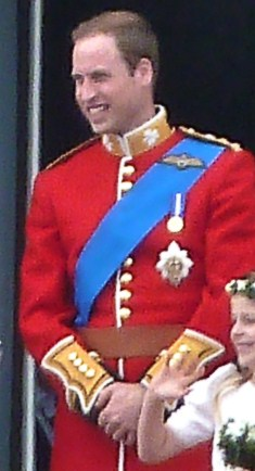 Prince William on the Balcony at Buckingham Palace following his wedding